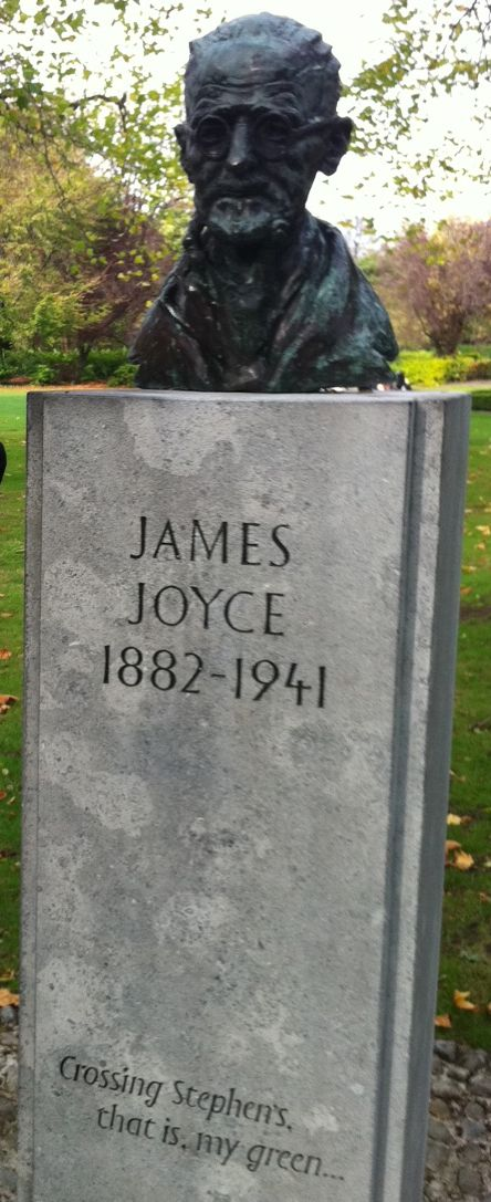 St Stephen's Green: A bust of James Joyce facing his former university at Newman House, Dublin.